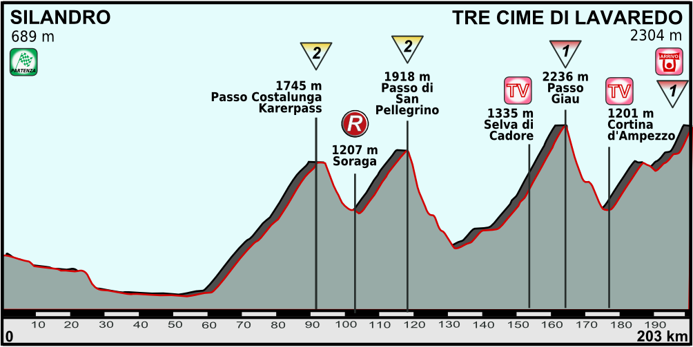 Giro d'Italia 2013 - stage profile # 20